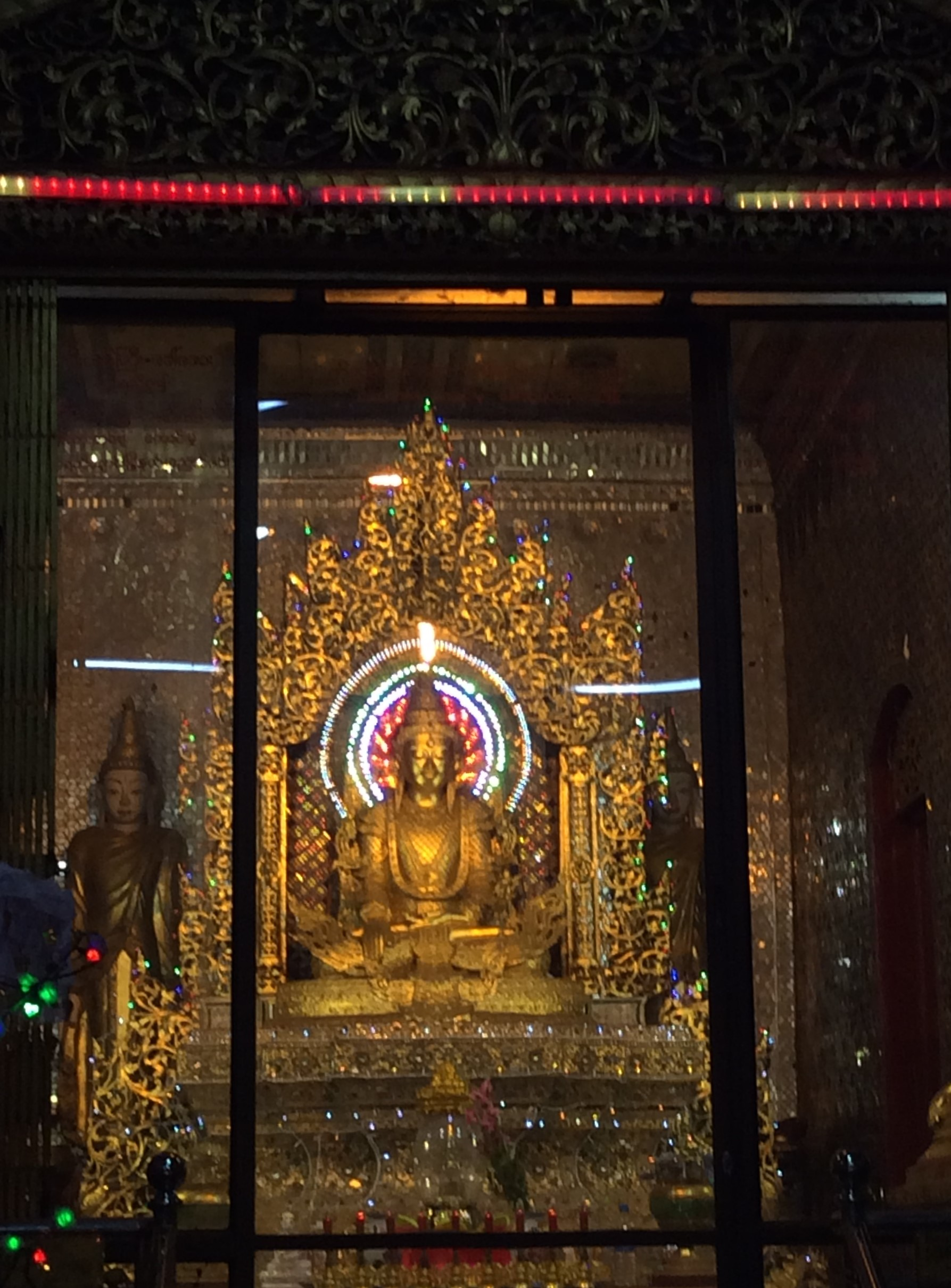 Shin Mote Htee Buddha Homage, Shin Mote Htee Village, Dawei Township, Tanintharyi Region မြန်မာဘာသာ: ရှင်မုတ္ထီးဘုရား၊ ရှင်မုတ္ထီးကျေးရွာ၊ ထားဝယ်မြို့နယ်၊ တနင်္သာရီတိုင်းဒေသကြီး